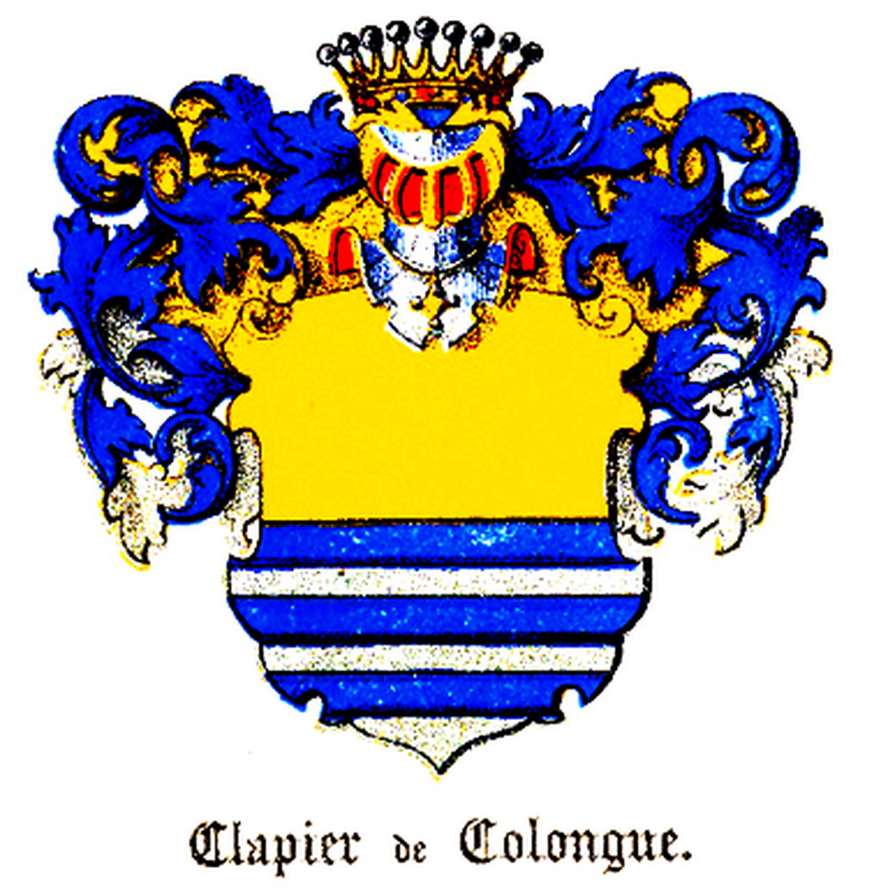 Coat of arms of Clapier de Colonque family